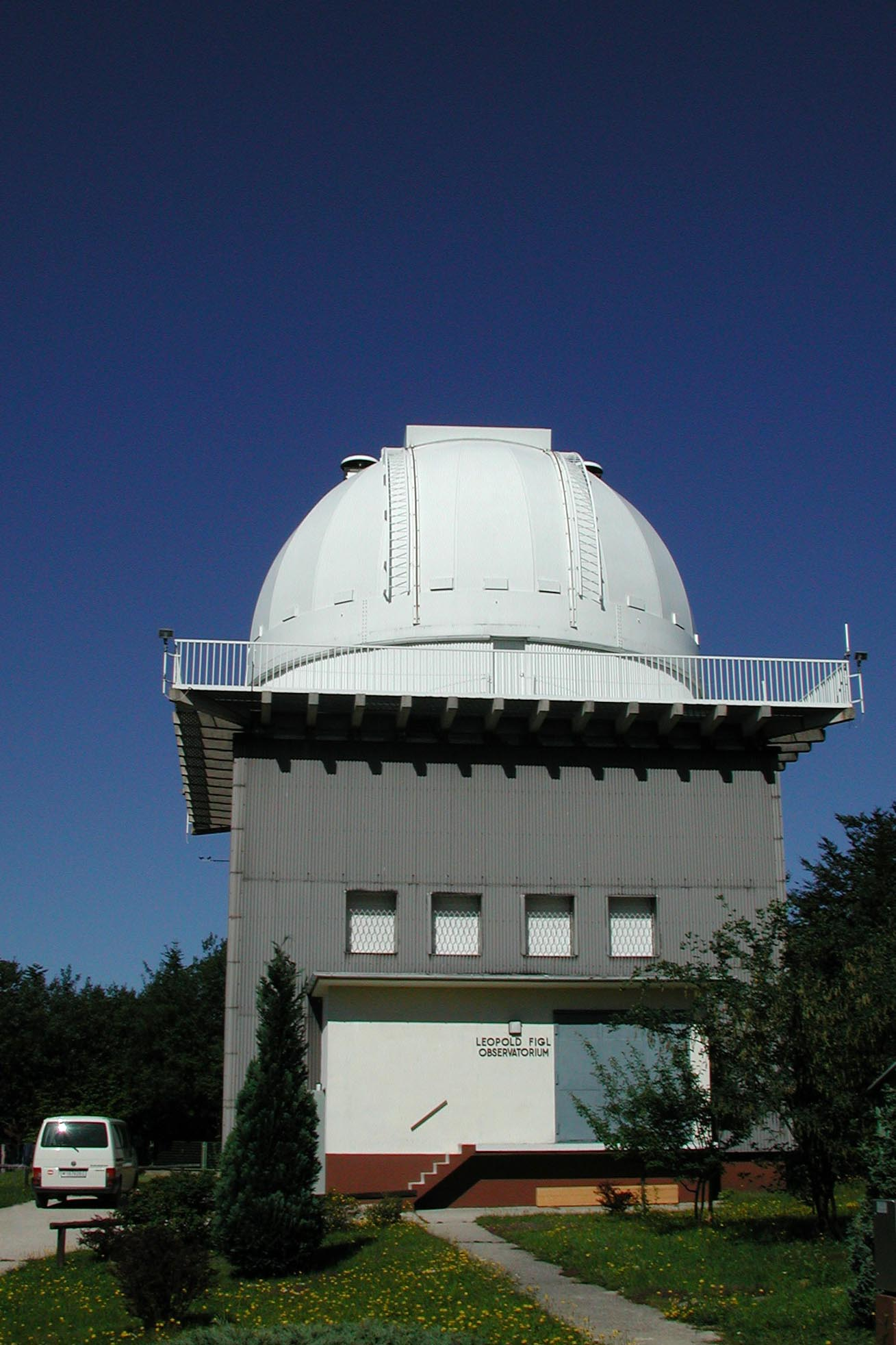 Leopold Figl Observatory für Astrophysik (FOA) der Universität Wien/Leopold Figl Observatory for Astropyhsics of the University of Vienna